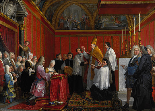 Marriage of the Pretender James Francis Edward Stuart and Maria Clementina Sobieska